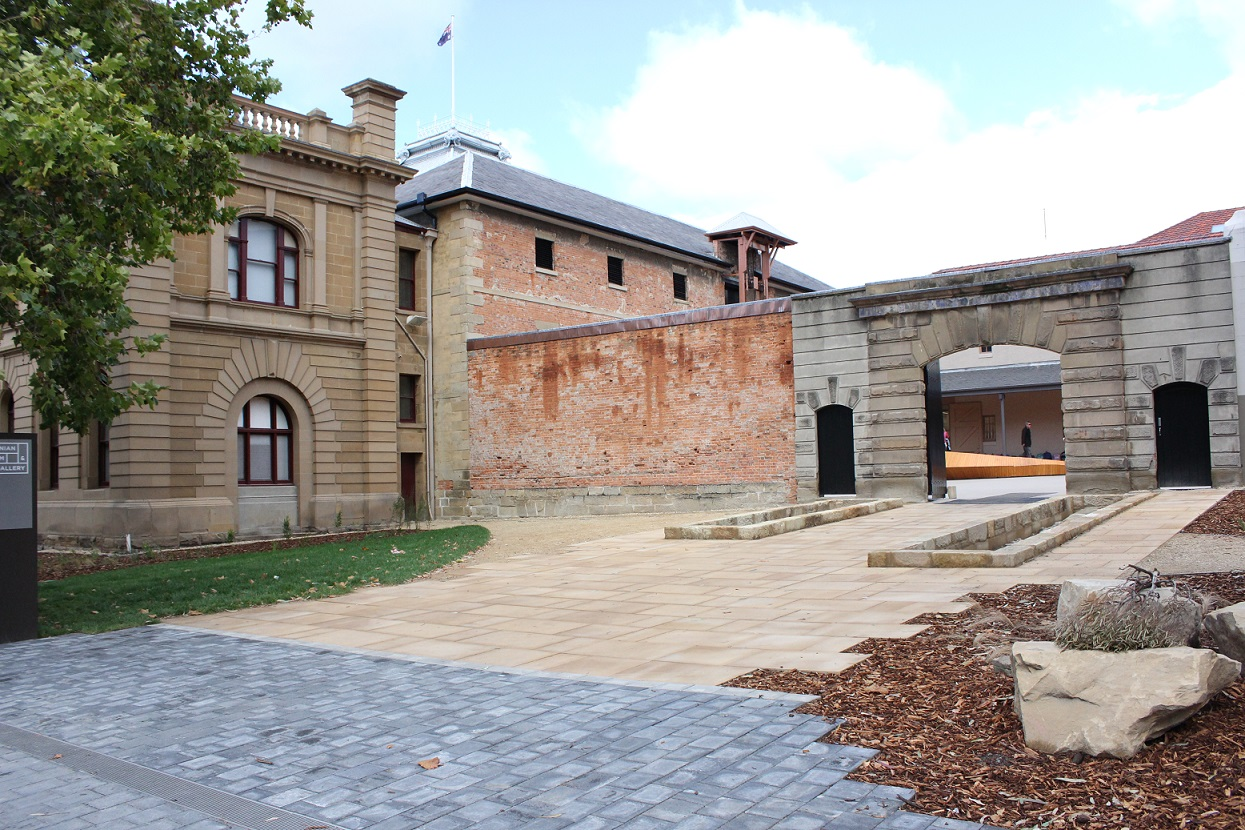 The Tasmanian Museum and Art Gallery (TMAG) main entrance.